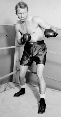 "Full-length portrait of pugilist Bud Taylor facing image right, standing in a boxing stance in a corner of a boxing ring in a room in Chicago, Illinois."